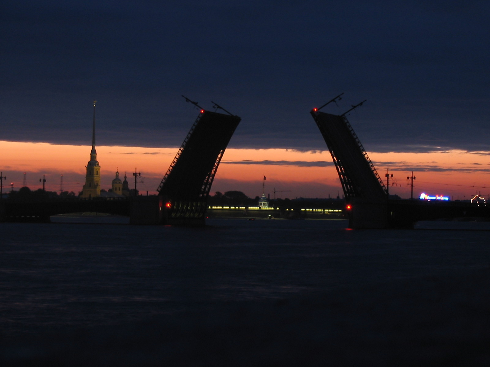 Palace Bridge in Saint Petersburg at white night